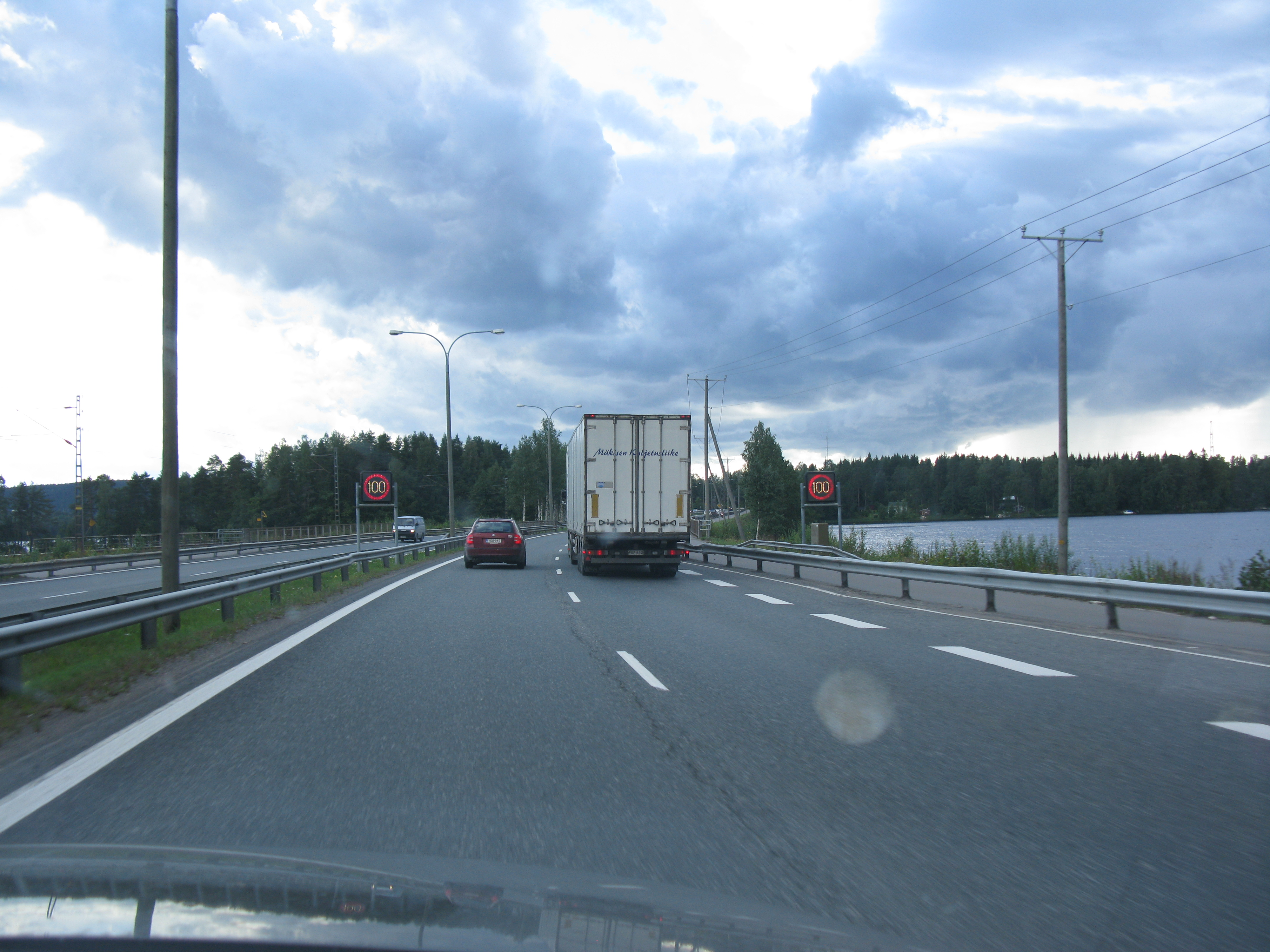 Main road 5 (E63) in Kuopio, Finland, towards the South.